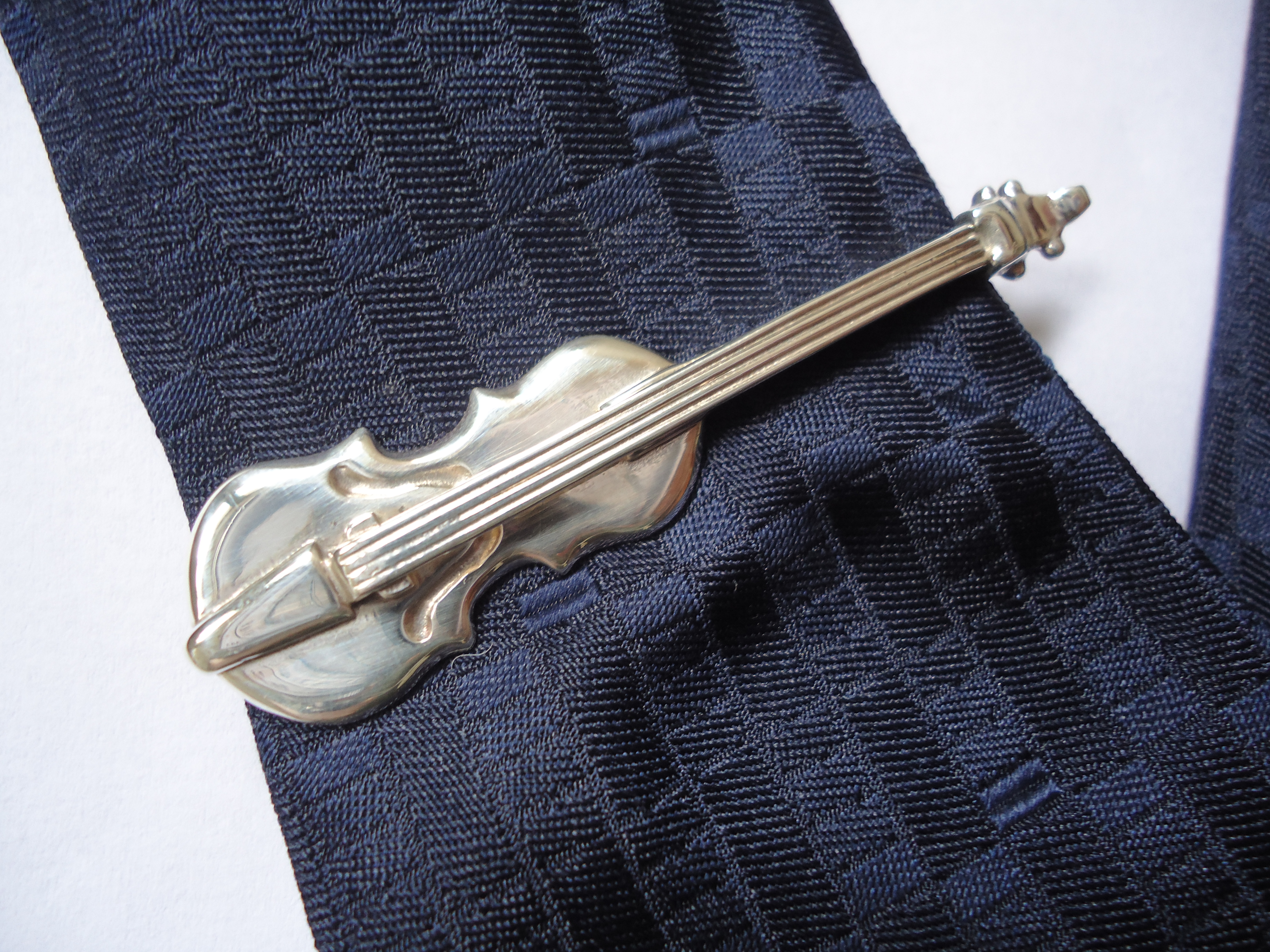 Silver tie clip. Made by Mauro cateb, Brazilian jeweler and silversmith.